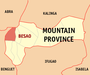 Map of Mountain Province showing the location of Besao